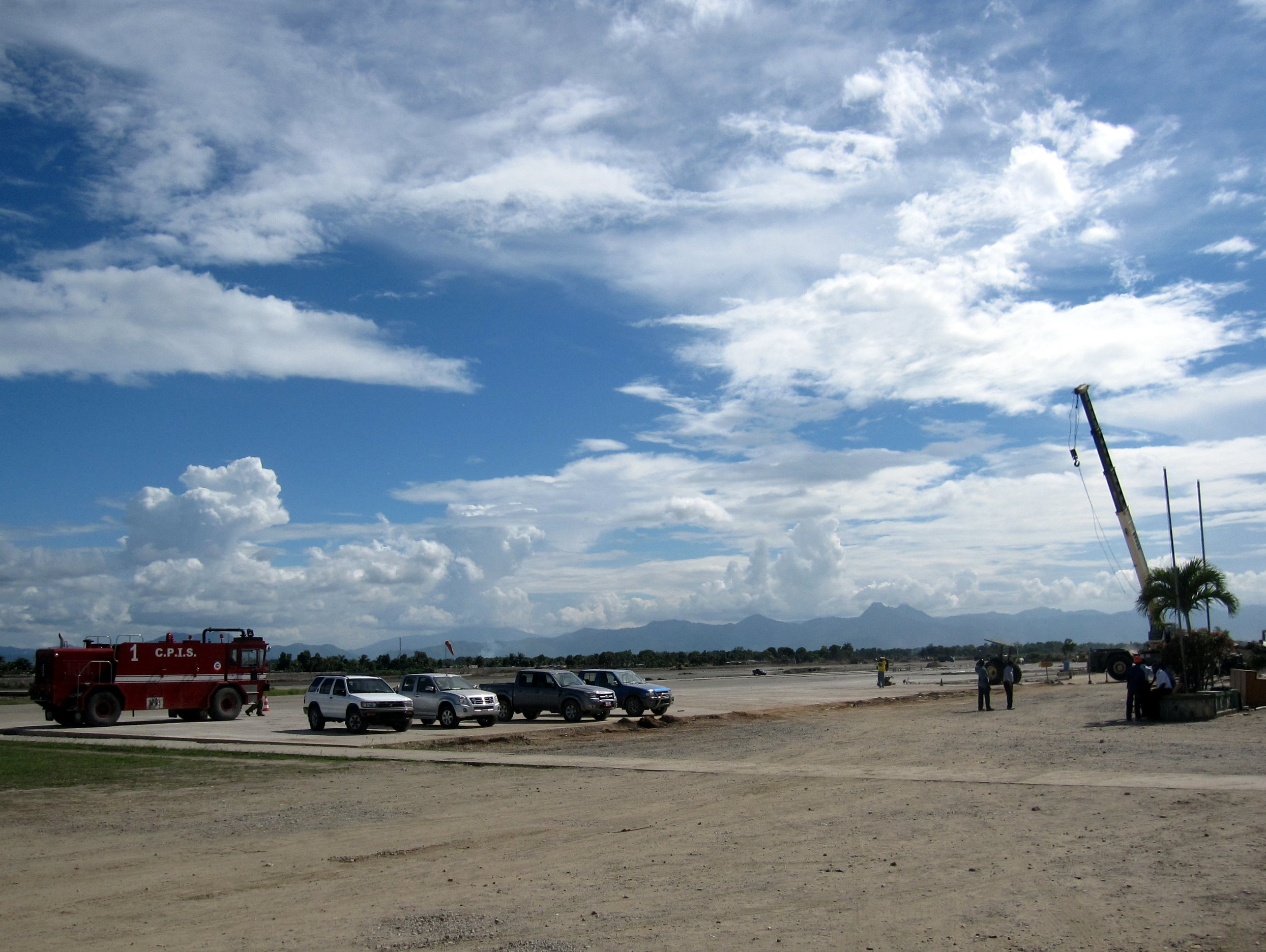 Cap-Haïtien Airport under construction to accommodate international flights. International Airport Cap Haitien, 2012.